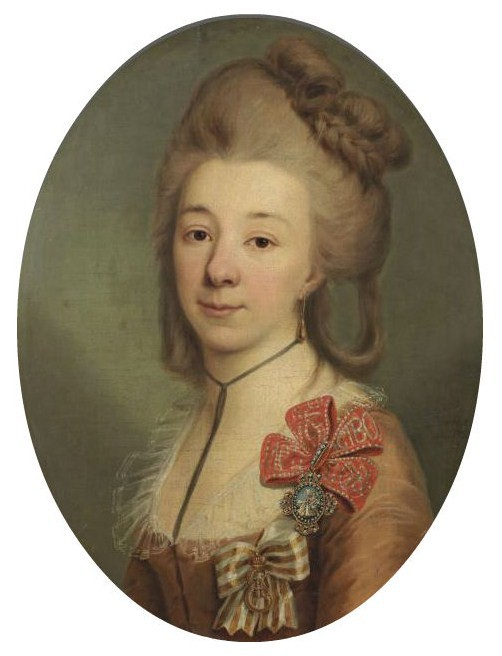 Portrait of Elizabeth Cherkasova (1761-1832)